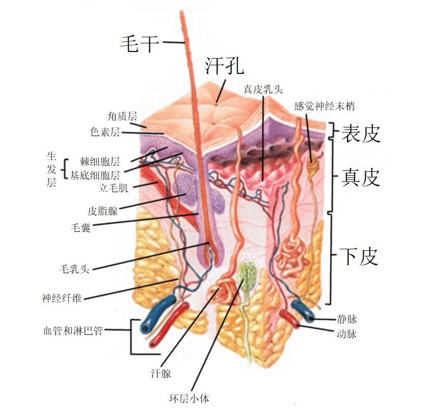 A complete diagram of the human skin.